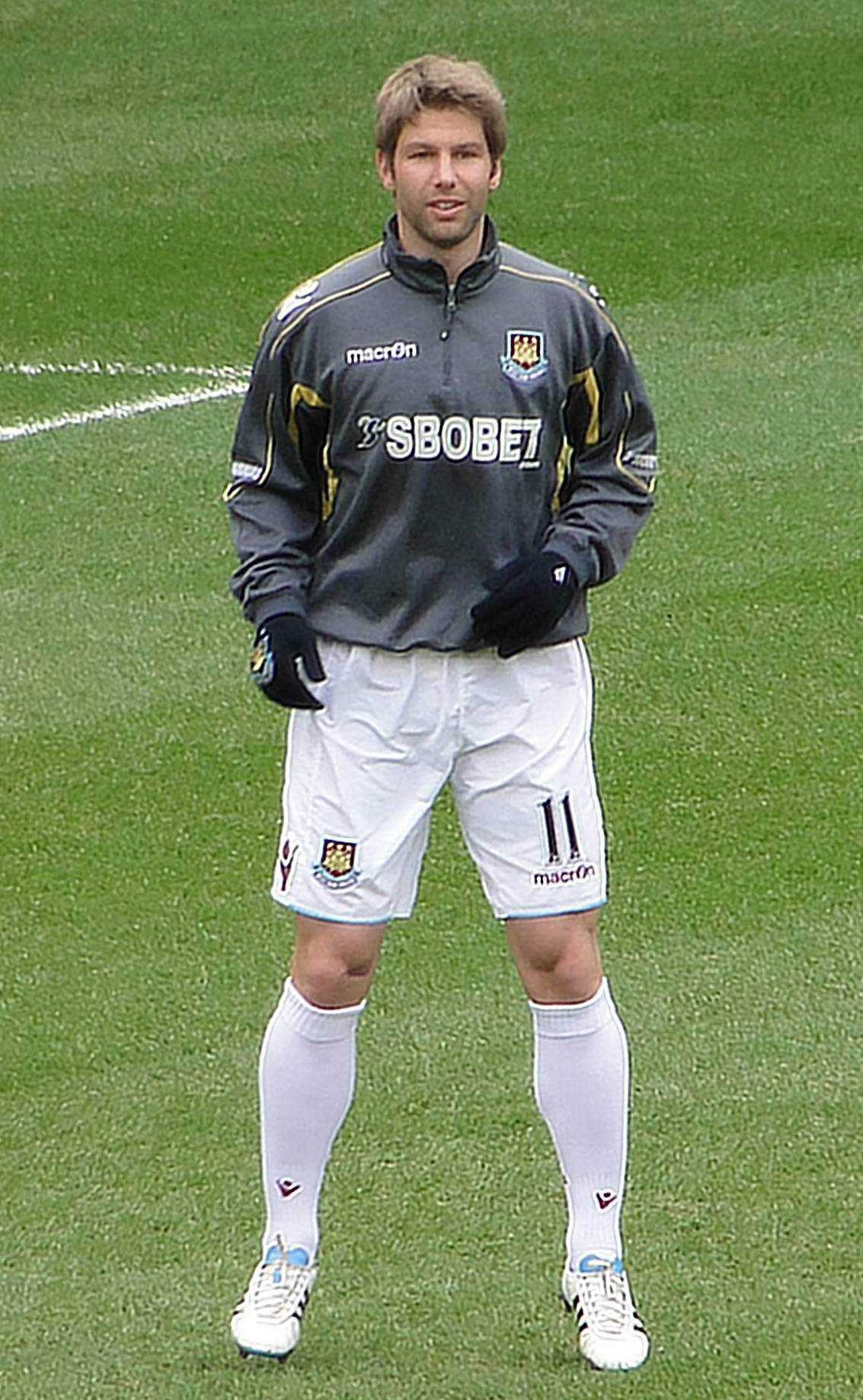 West Ham player Thomas Hitzlsperger warming-up before their game against Stoke City on 5 March 2011 which they won 3-0 with Hitzlsperger scoring the third goal.